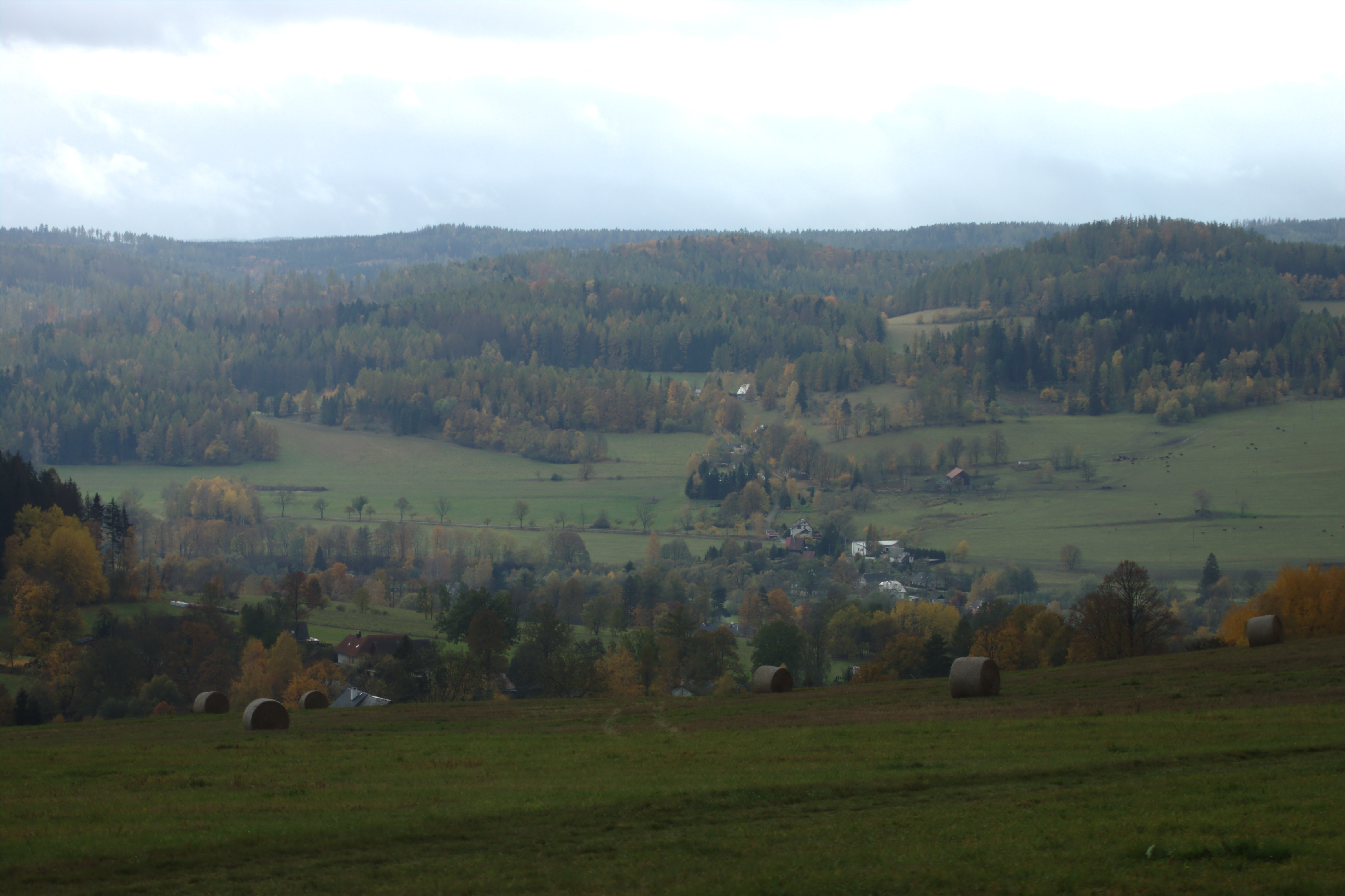 Countryside around the town of Široká Niva in Nízký Jeseník, CZ